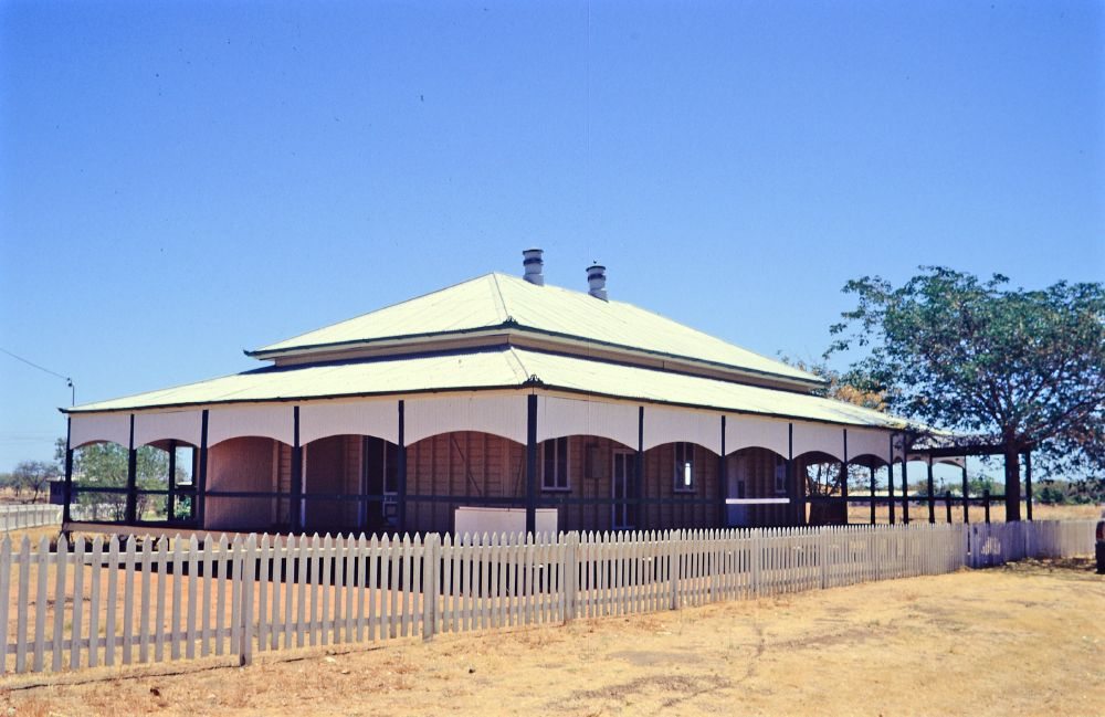 Croydon State Emergency Services Building, cnr Sircom Street and Brown Street (1994)